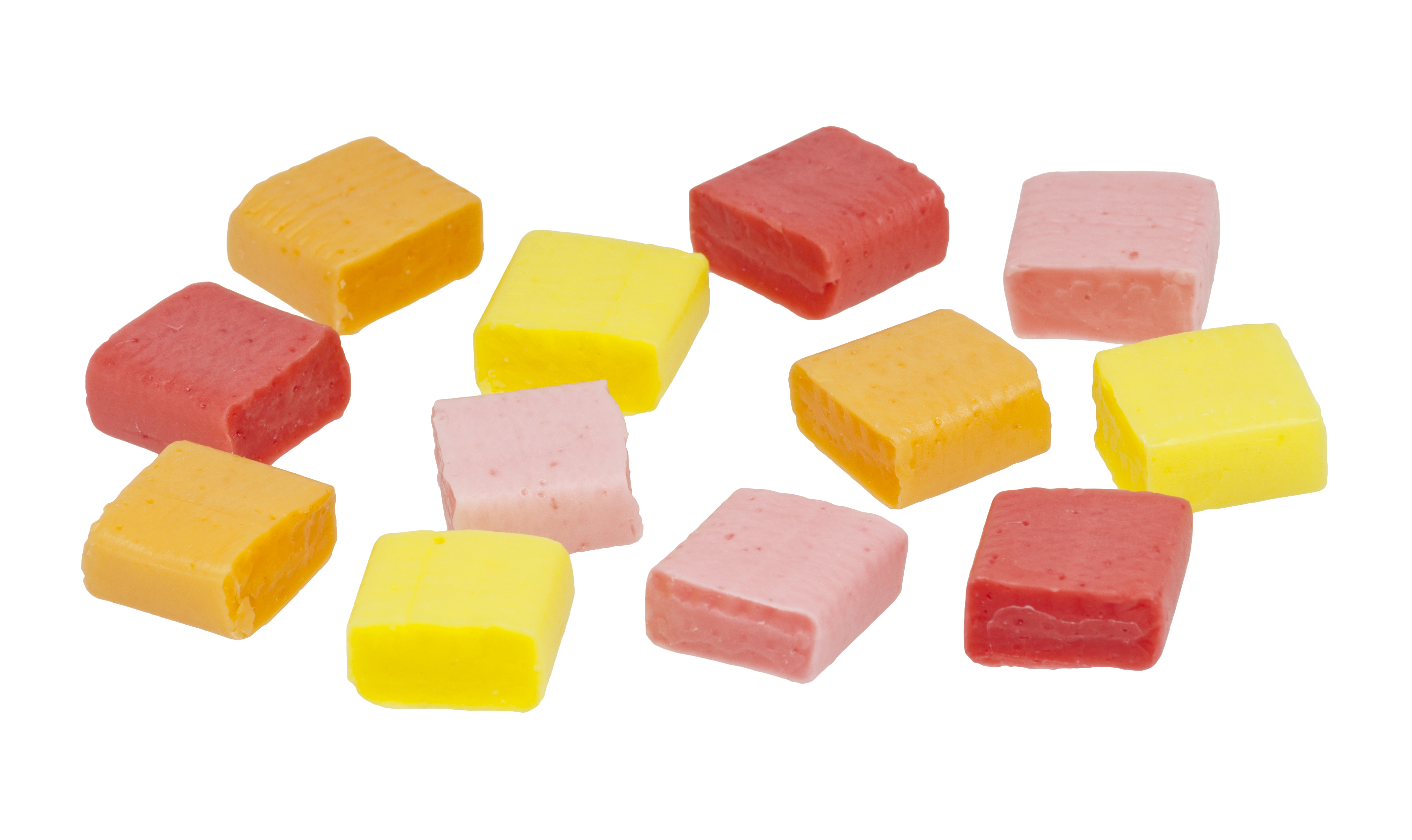 Starburst candies, showing all four flavors: cherry, lemon, strawberry and orange.